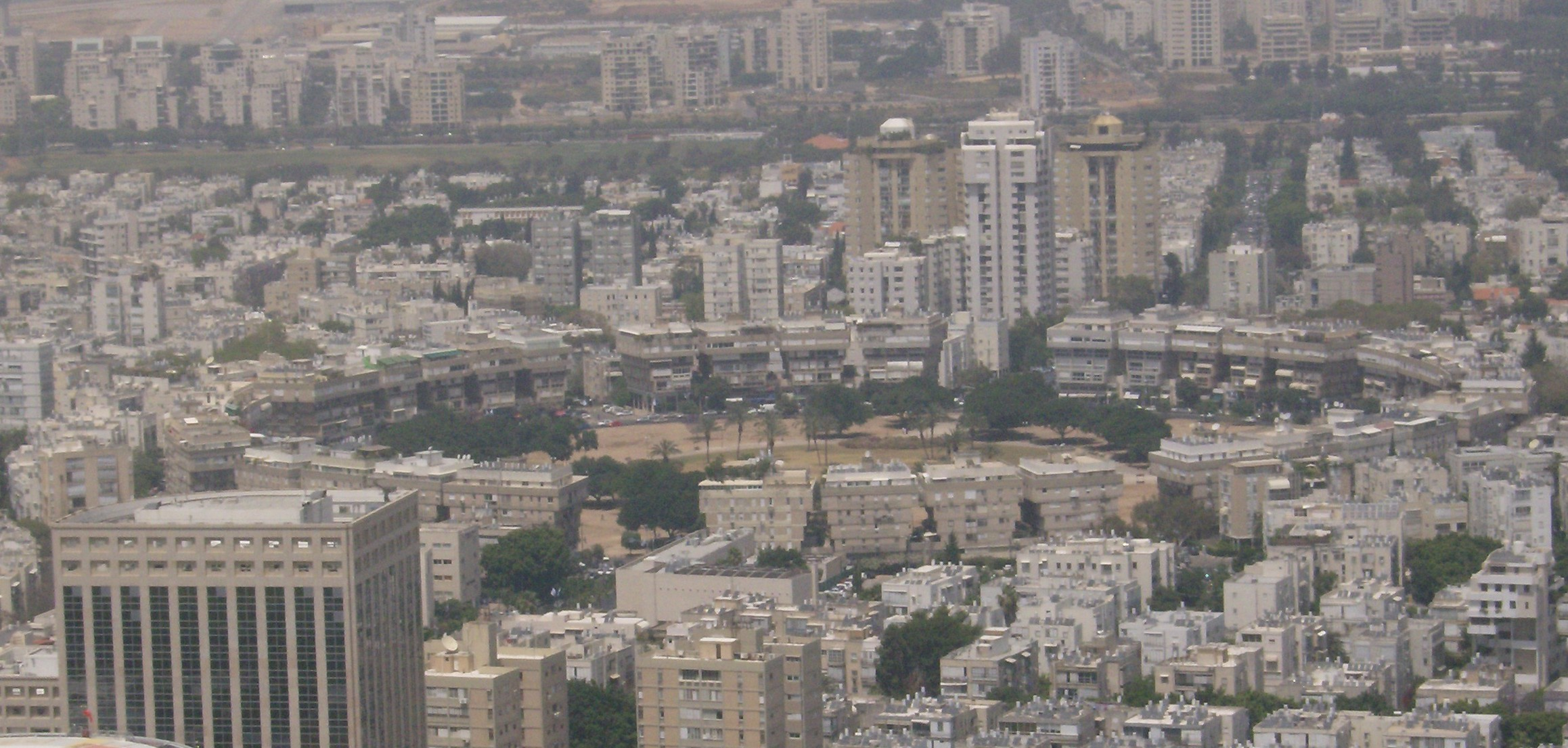 Kikar Hamedina (The State's Square), Tel Aviv, Israel